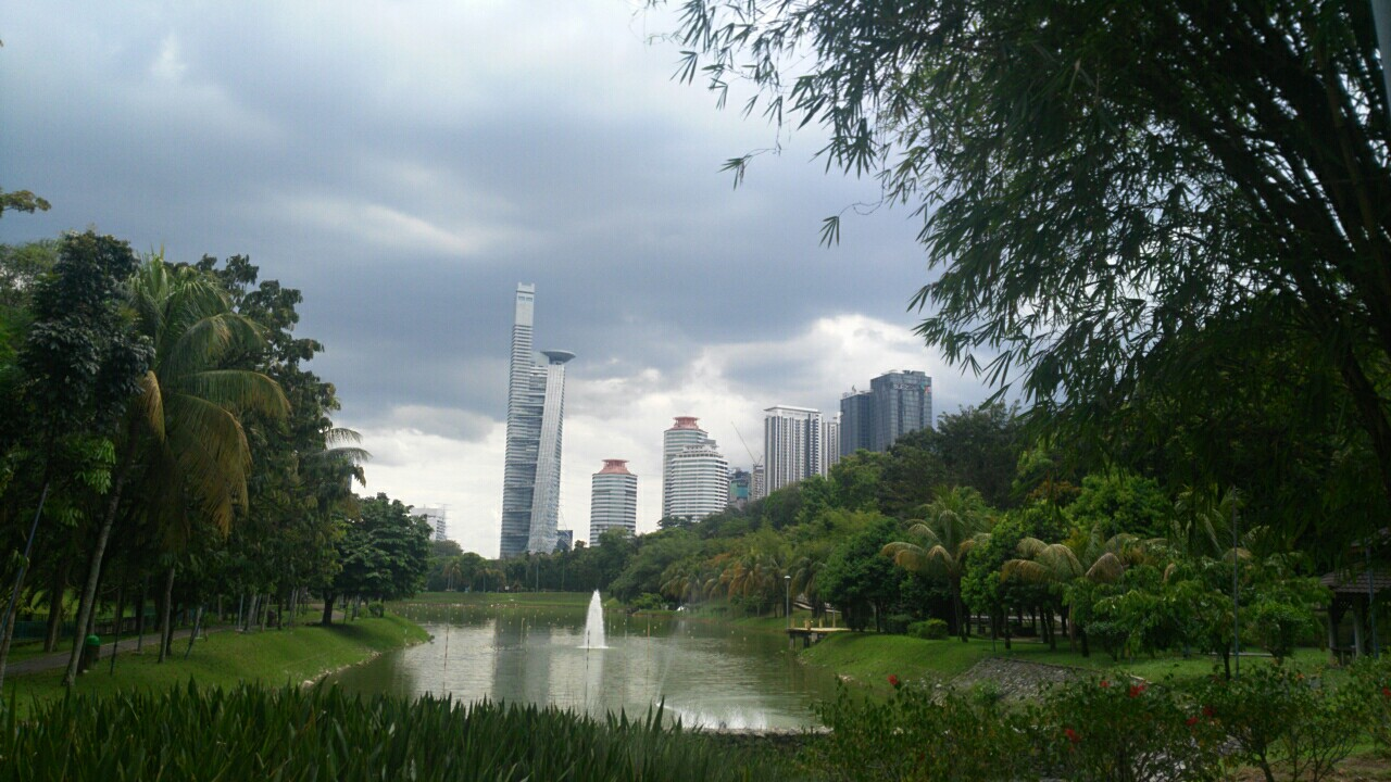 Photograph taken in a scenic area of the University of Malaya.